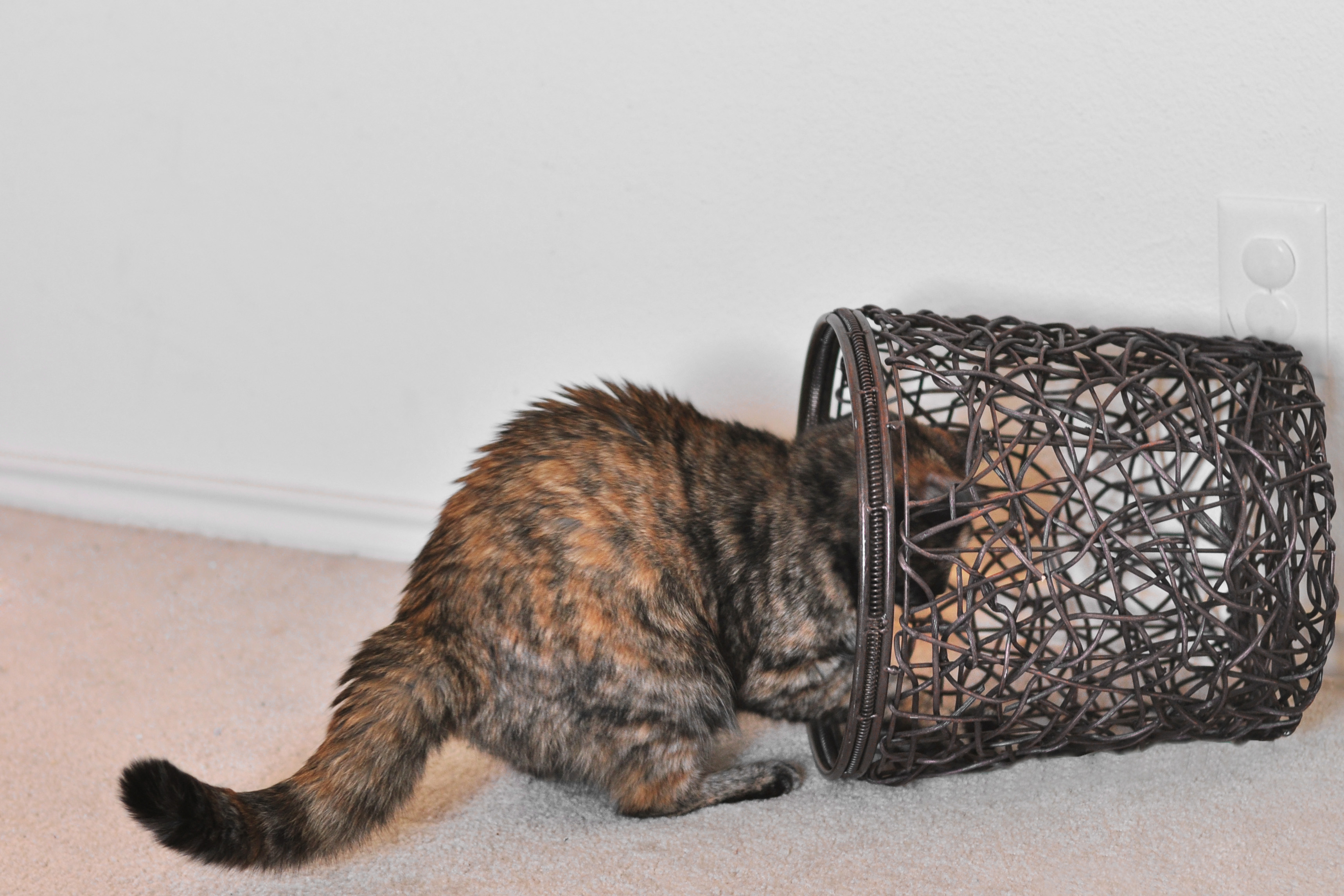 My cat playing and hair standing up.